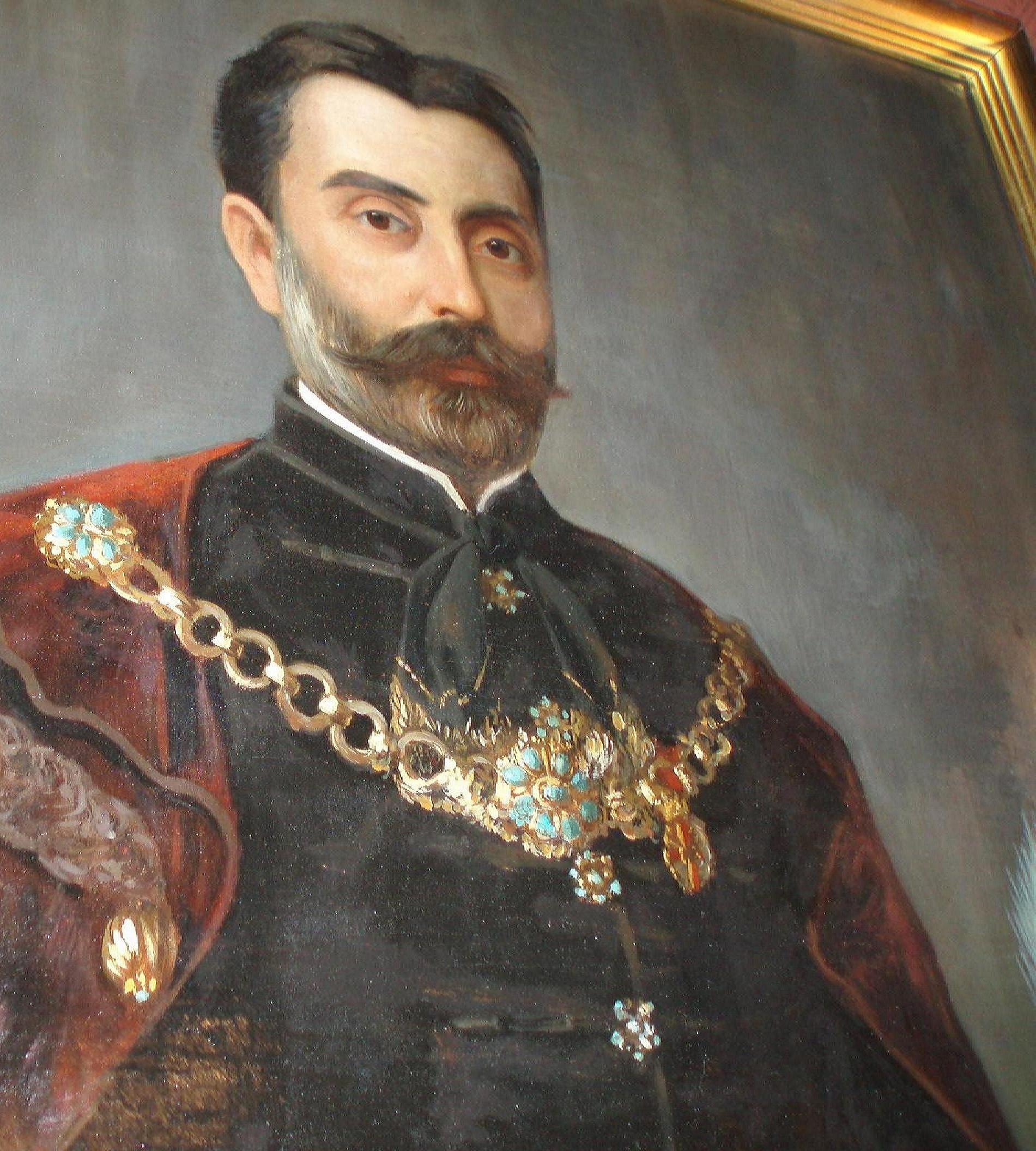 Teodor Munster, Kosice